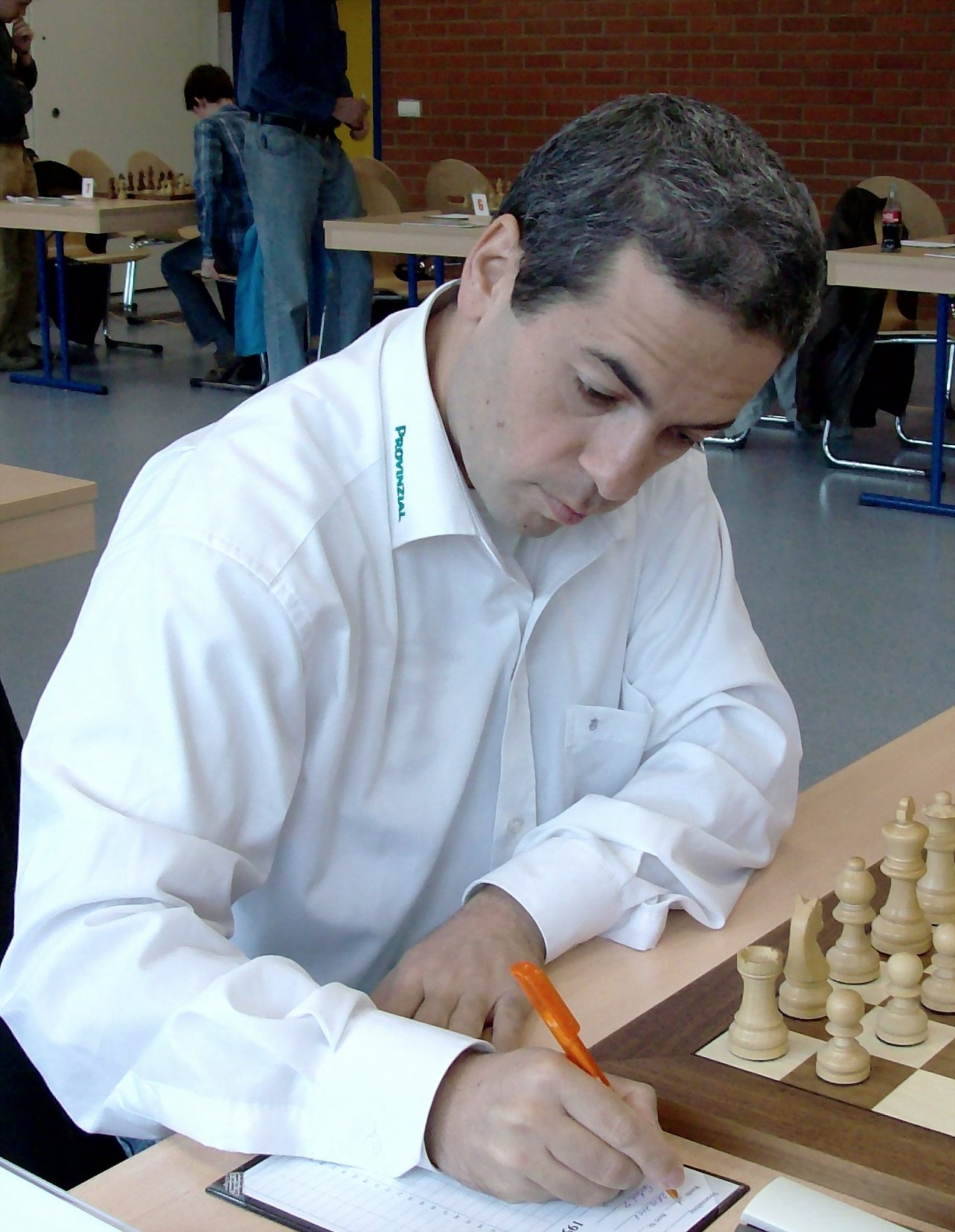 Vitali Golod, chess grandmaster from Israel